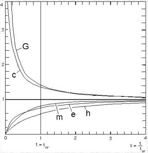 Secular variation of the constants of Physics